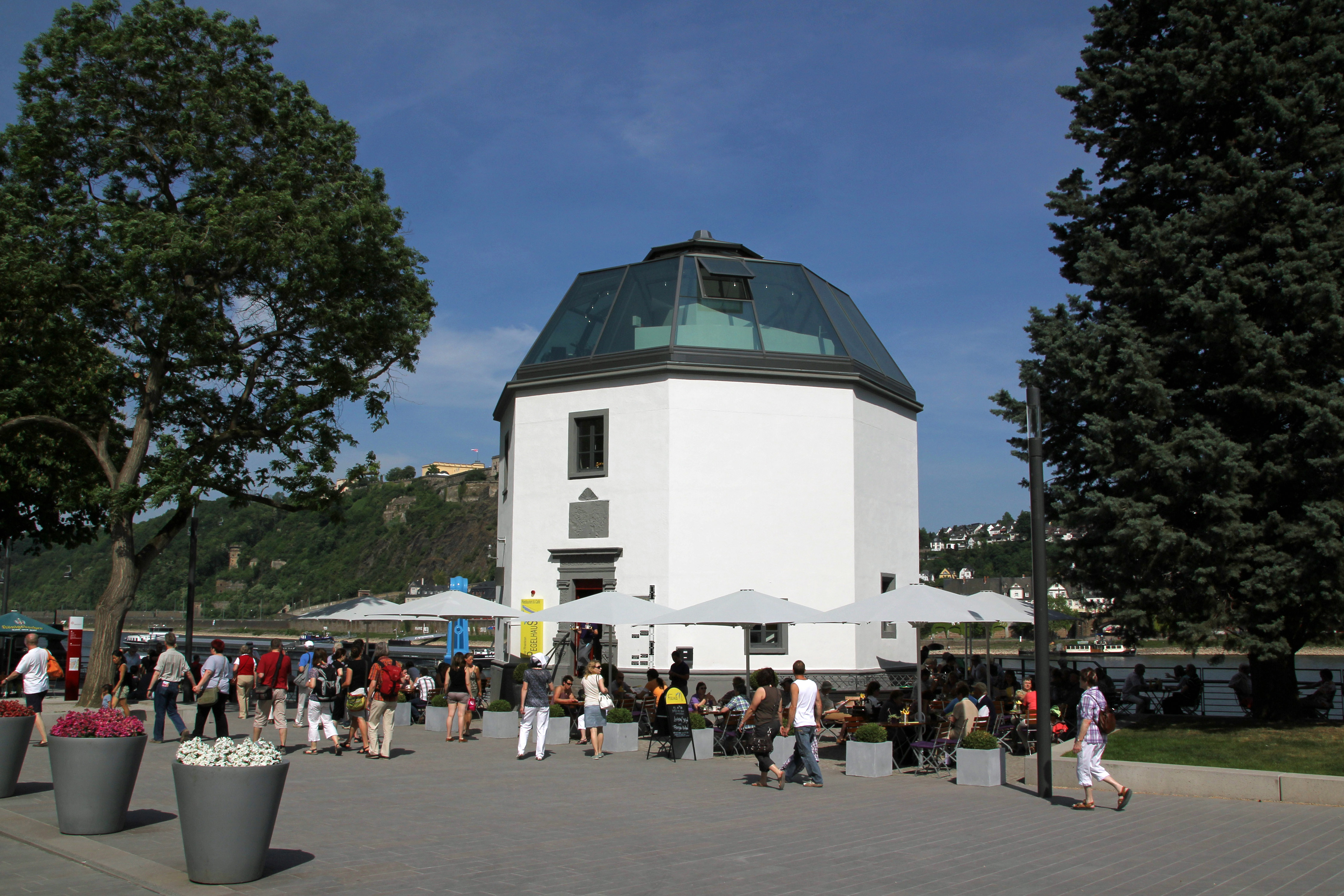 Rhine park in Koblenz